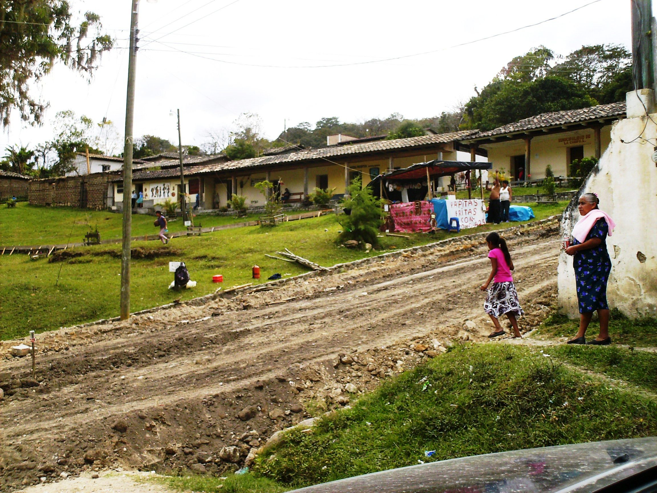 La Campa, municipality in the Honduran department of Lempira.